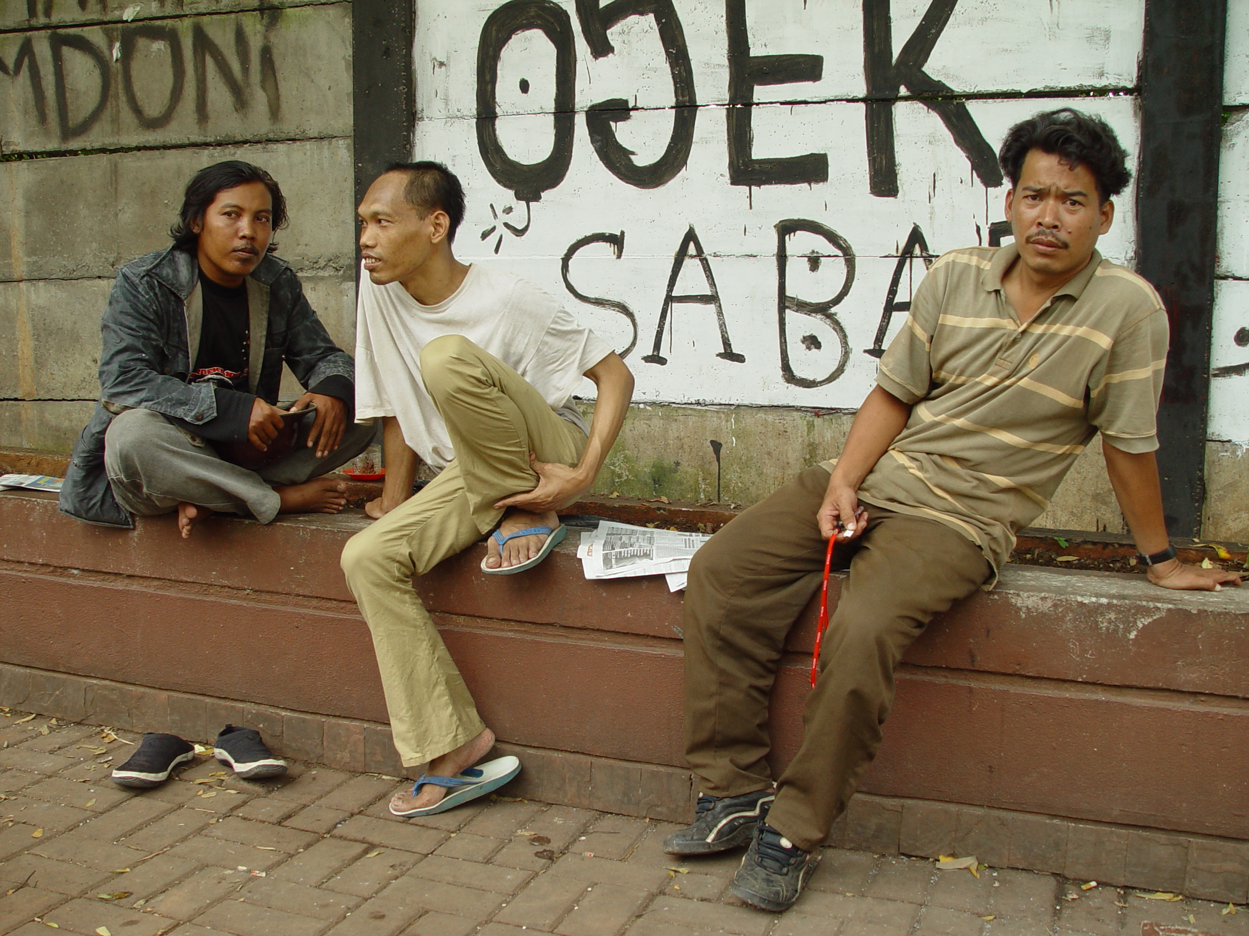 Ojek motorbike taxi drivers in Jakarta, Indonesia.